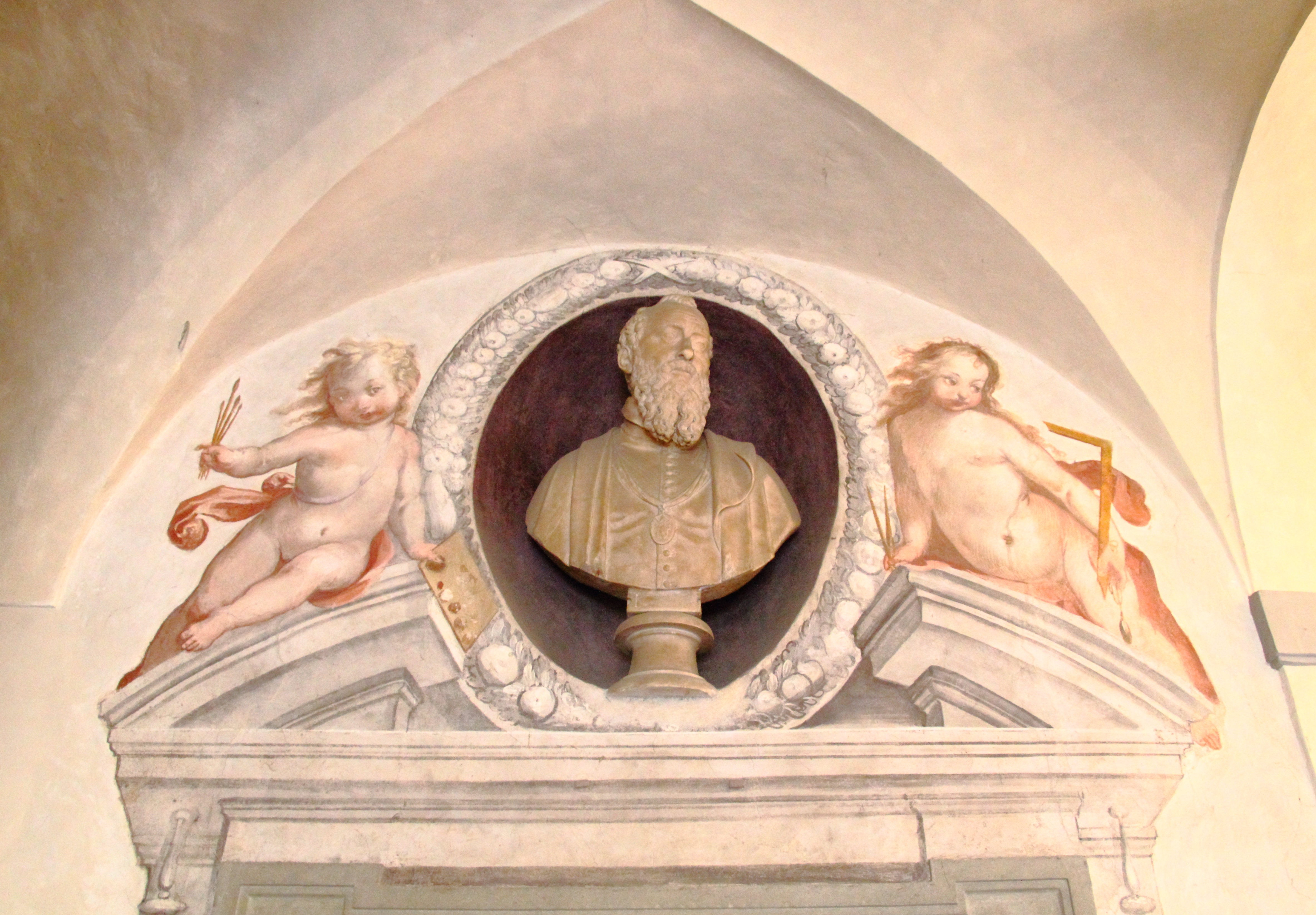 Arezzo, Italy: house of Giorgio Vasari